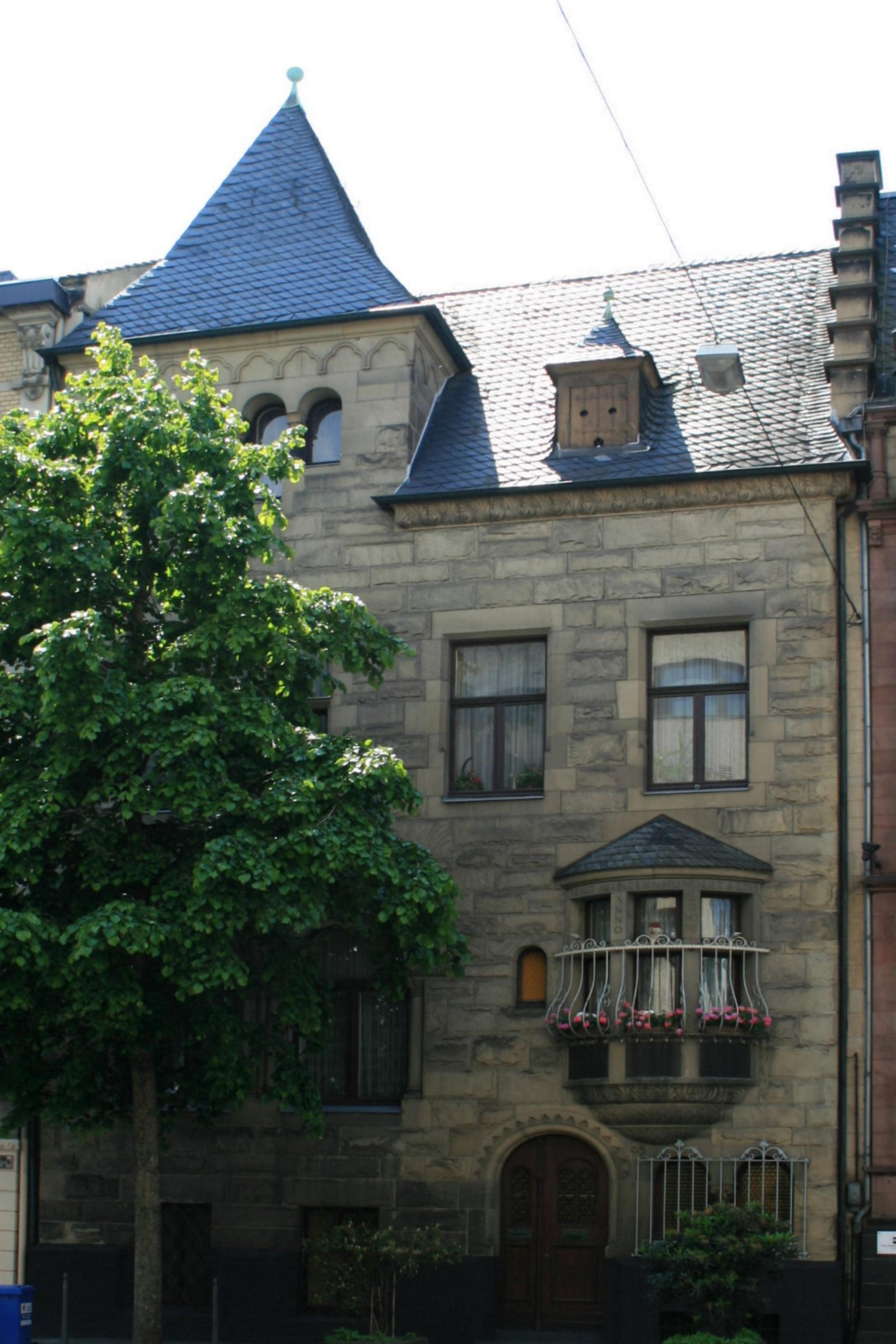 Cultural heritage monument No. B 047 in Mönchengladbach